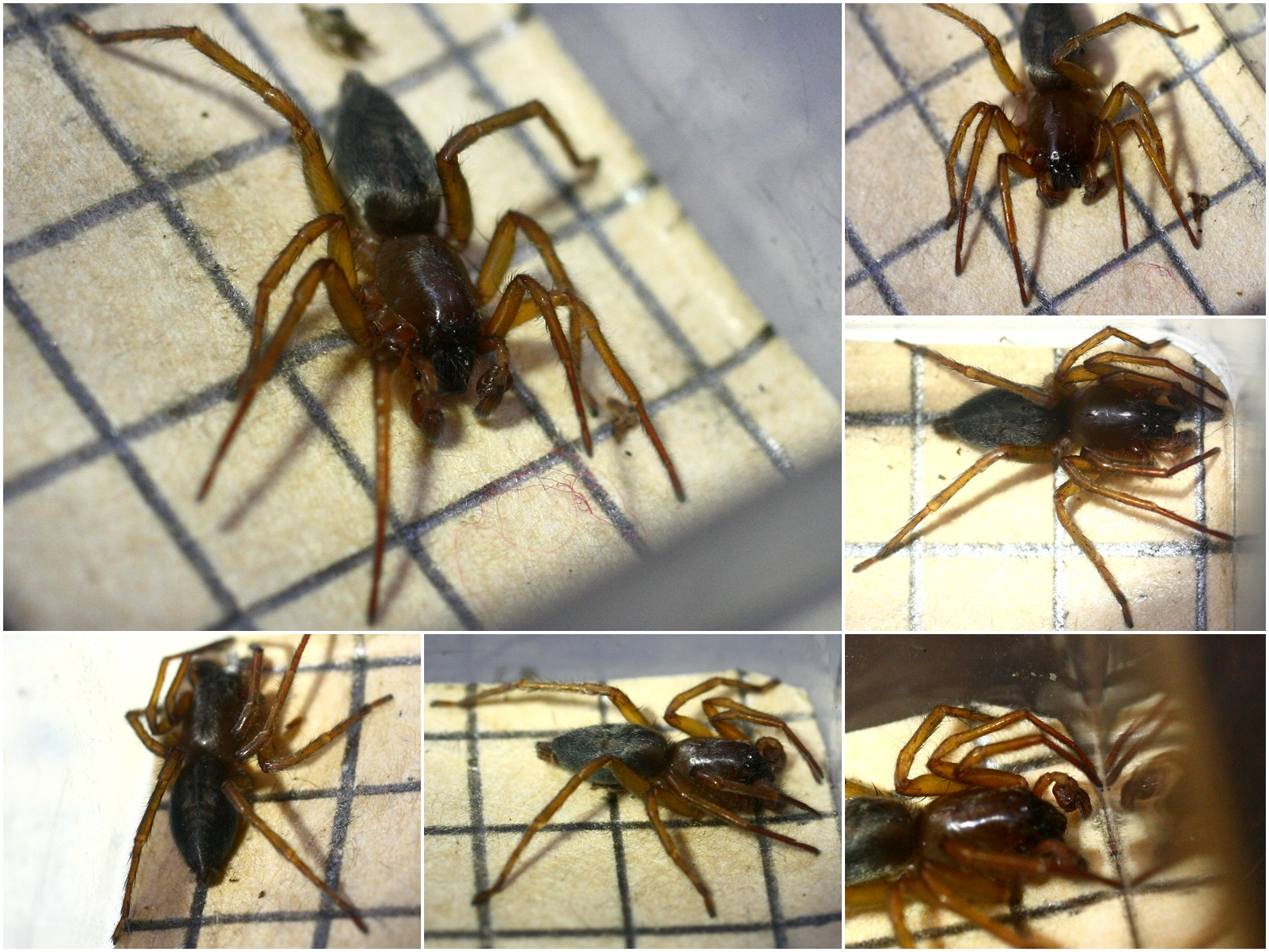 Clubiona corticalis (Clubionidae). 7.0mm long male, found walking on tree trunk at night. Palps with huge expanded bulb (lower-right photo). Bricket Wood Common, Hertfordshire, 6th May 2012. More Info... Species Summary from Spider Recording Scheme Map from NBN Gateway Pavouci CZ Jorgen Lissner - juvenile male